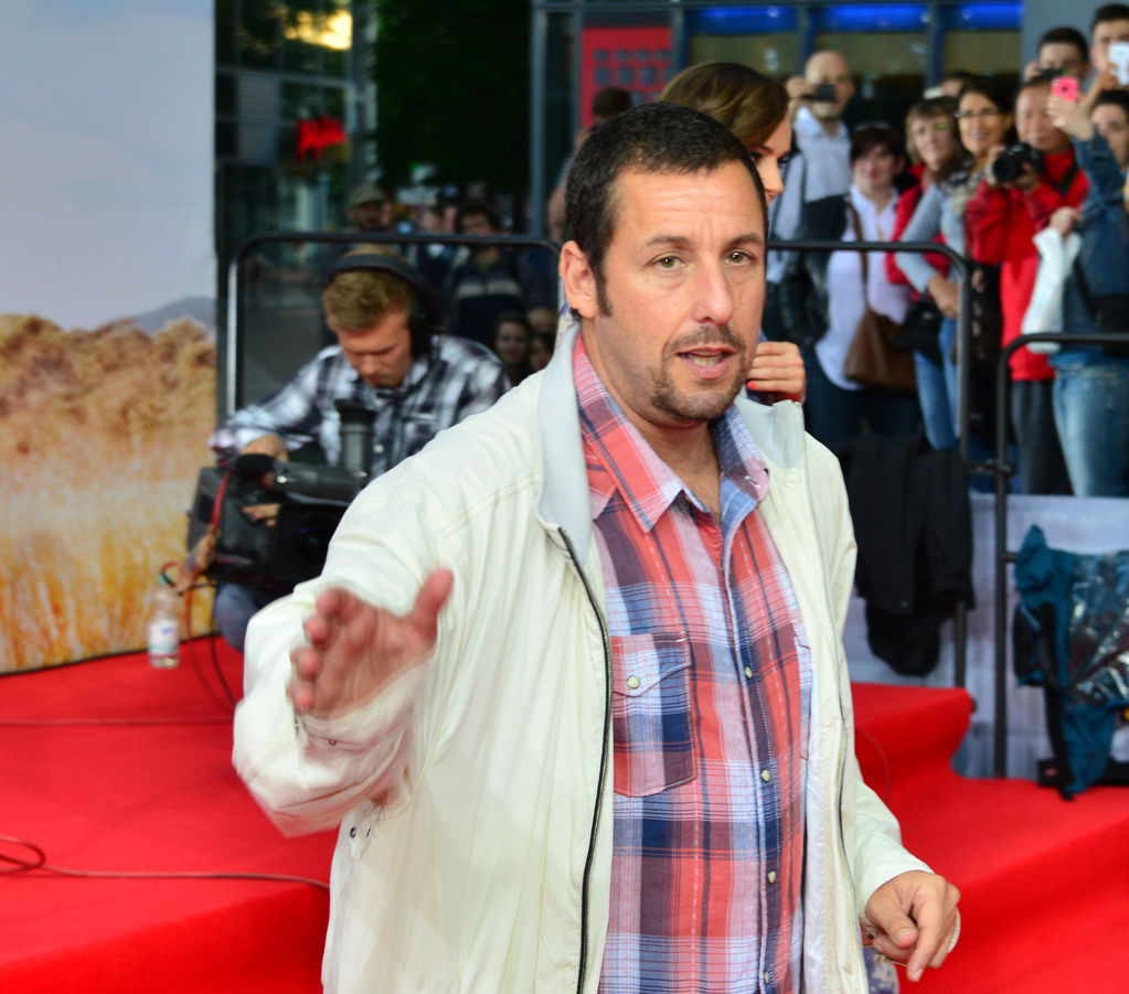 Drew Barrymore and her co-star Adam Sandler on the red carpet together at the premiere of their new movie Blended on Monday (May 19) at Cinestar movie theater (Sony Center) in Berlin, Germany. The comedy film directed by Frank Coraci. More Photos At